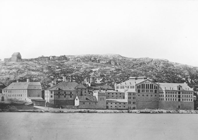 Münchenbryggeriet in Stockholm around 1860.